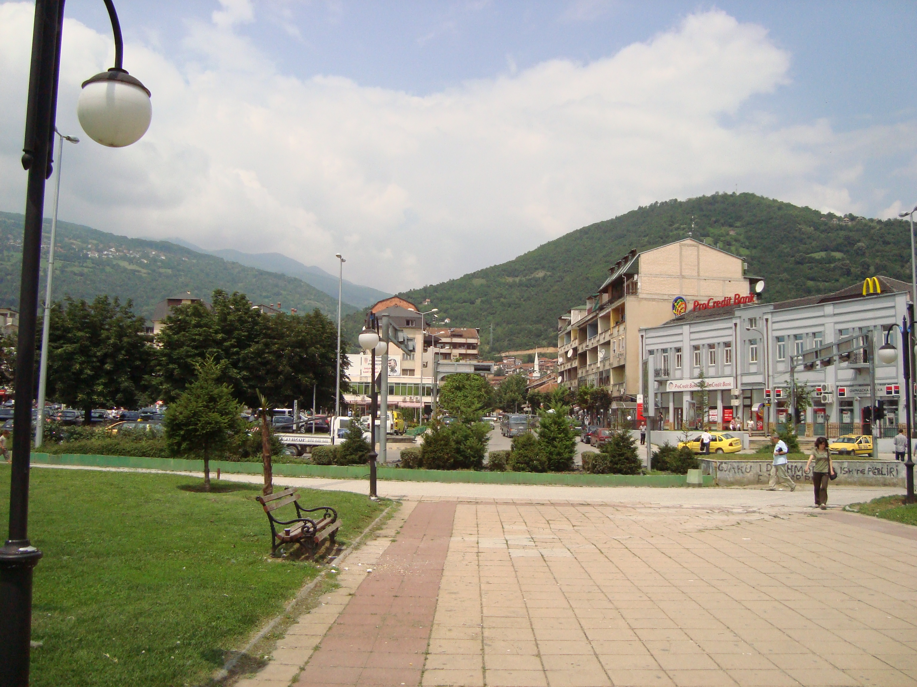 A view from the culture club in Tetovo, Macedonia.